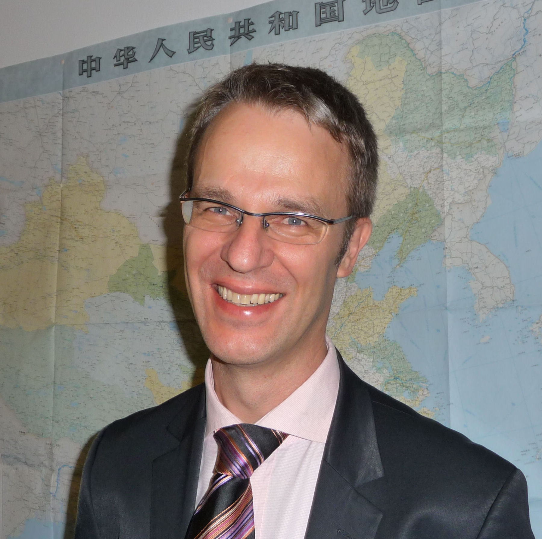 Clas Neumann in the East Asia Institute (Ostasieninistitut) Ludwigshafen, Germany